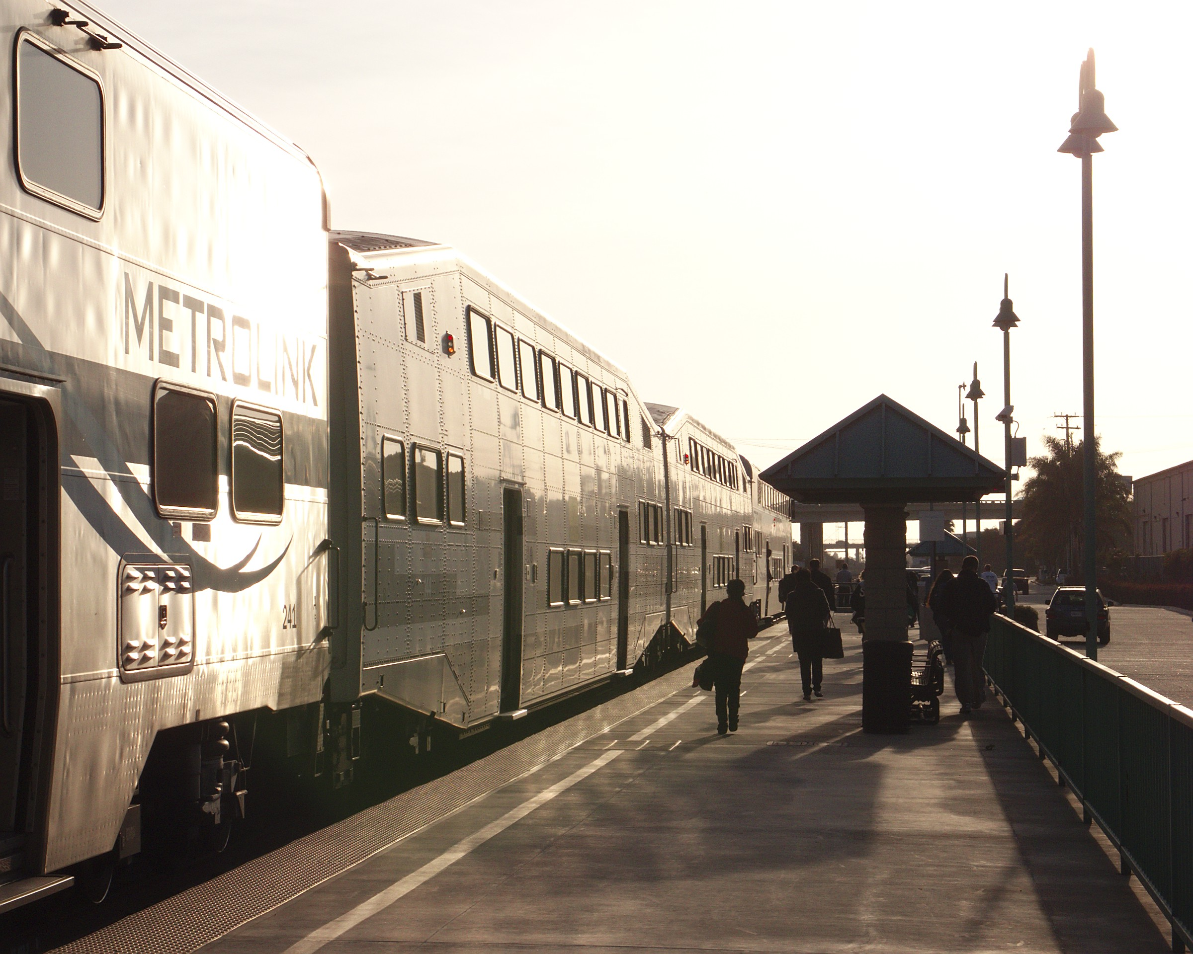 The East Ventura Metrolink station northern terminus of the Metrolink Ventura County Line, and bus lines transit hub, at sunset. In the Montalvo district of eastern City of Ventura, in Ventura County, California.